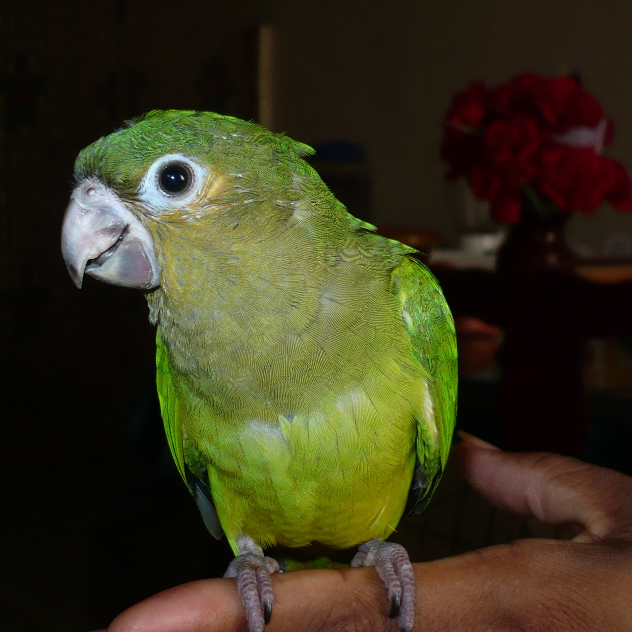 Brown-throated Parakeet (Aratinga pertinax ocularis), Panama City, Panama. Approximately 2-3 month old.